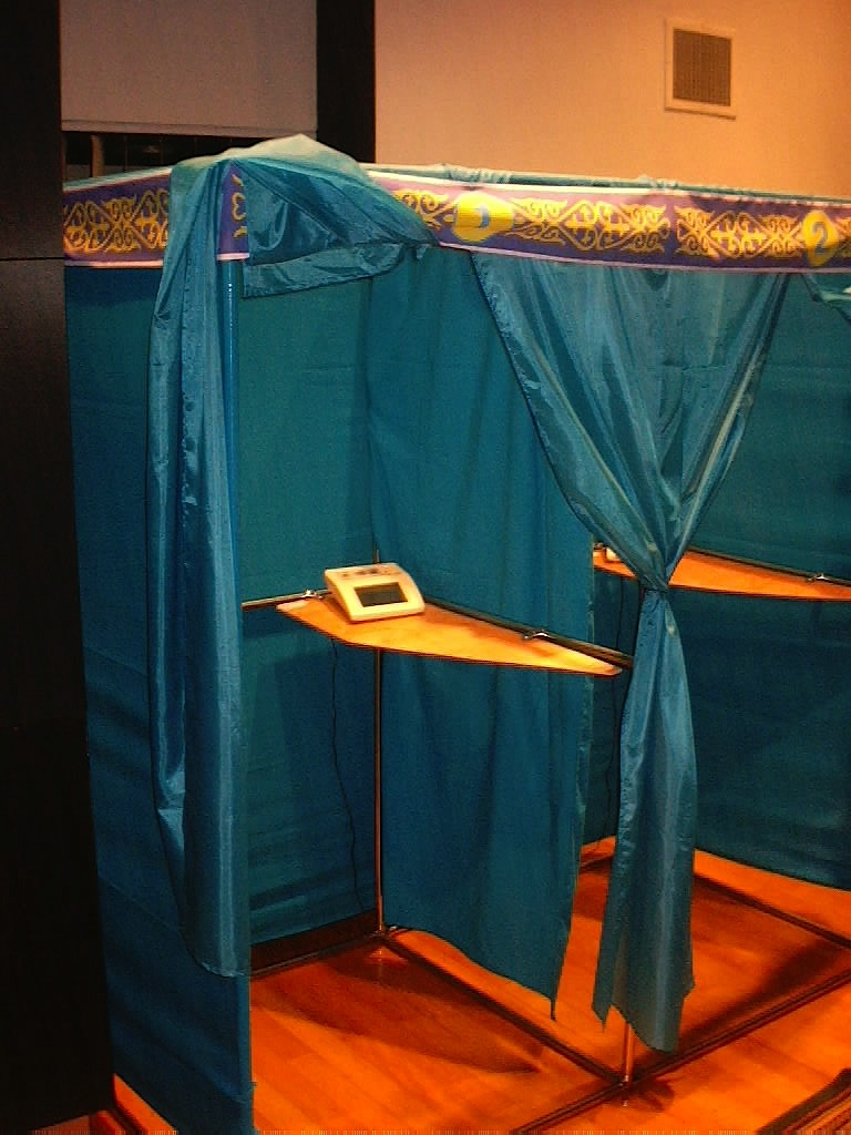 Voting booth and "Sailau" electronic voting terminal, Central Election Commission Building, Astana, Kazakhstan. This device records the voted ballot on a smart card that the voter then carries to a ballot tabulator where it is counted.